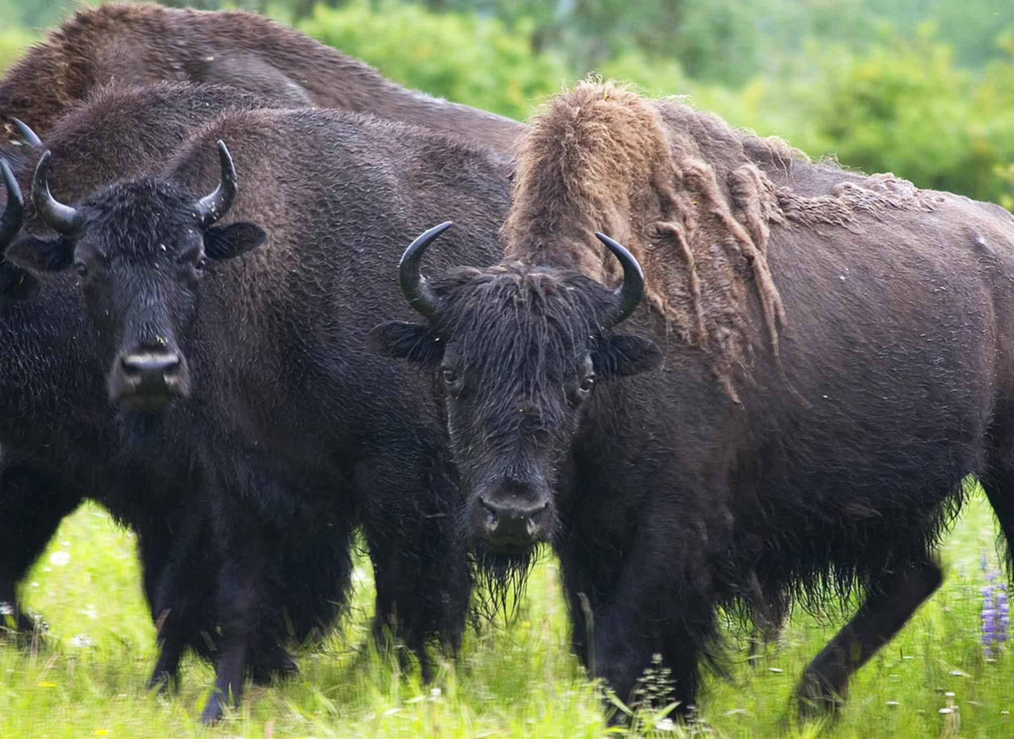 Image title: Wood bison or mountain buffalo bison bison athabascae Image from Public domain images website